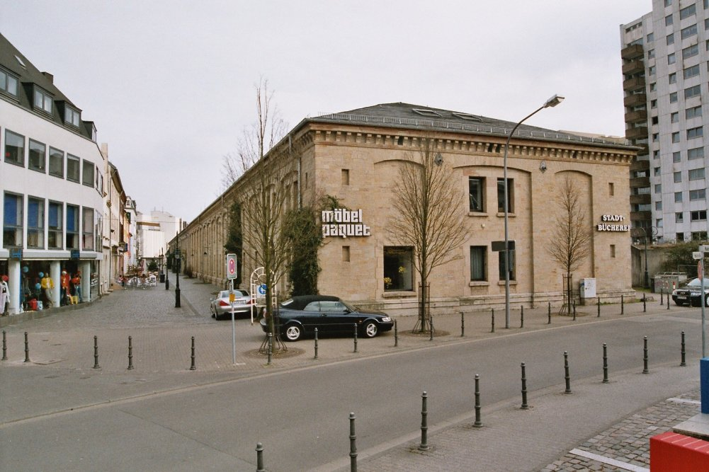 Die Kaserne No VI der Festung Saarlouis, 1869